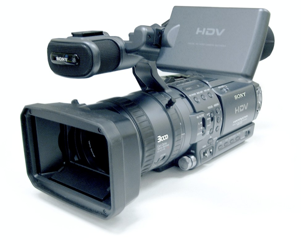 Sony HDR-FX1E HDV Handycam Camcorder